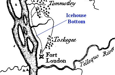 A modern indication of the location of Icehouse Bottom using Henry Timberlake's "Draught of the Cherokee Country," originally published in 1765. The Icehouse Bottom site is located near Vonore, Tennessee, in the southeastern United States. Timberlake's original map can be found here. The current author's additions are in blue.